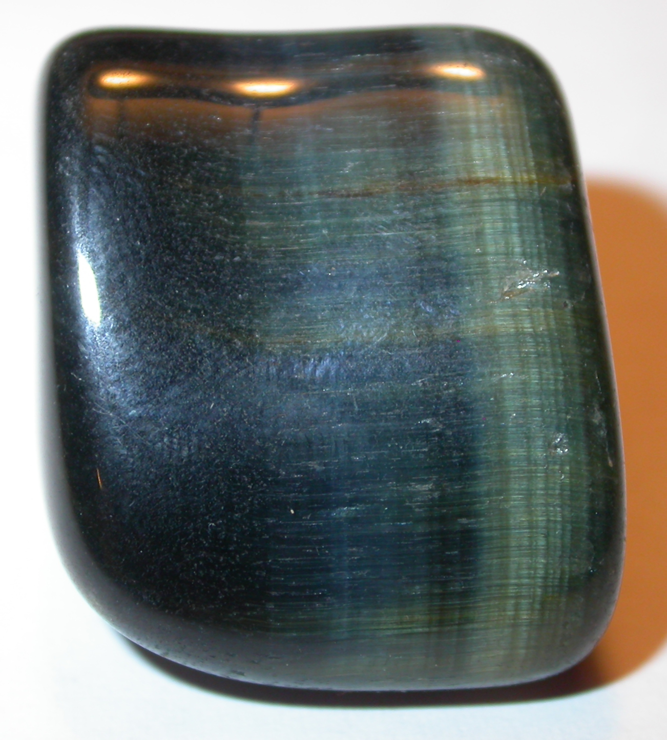 Hawk's eye - tumble polished stone